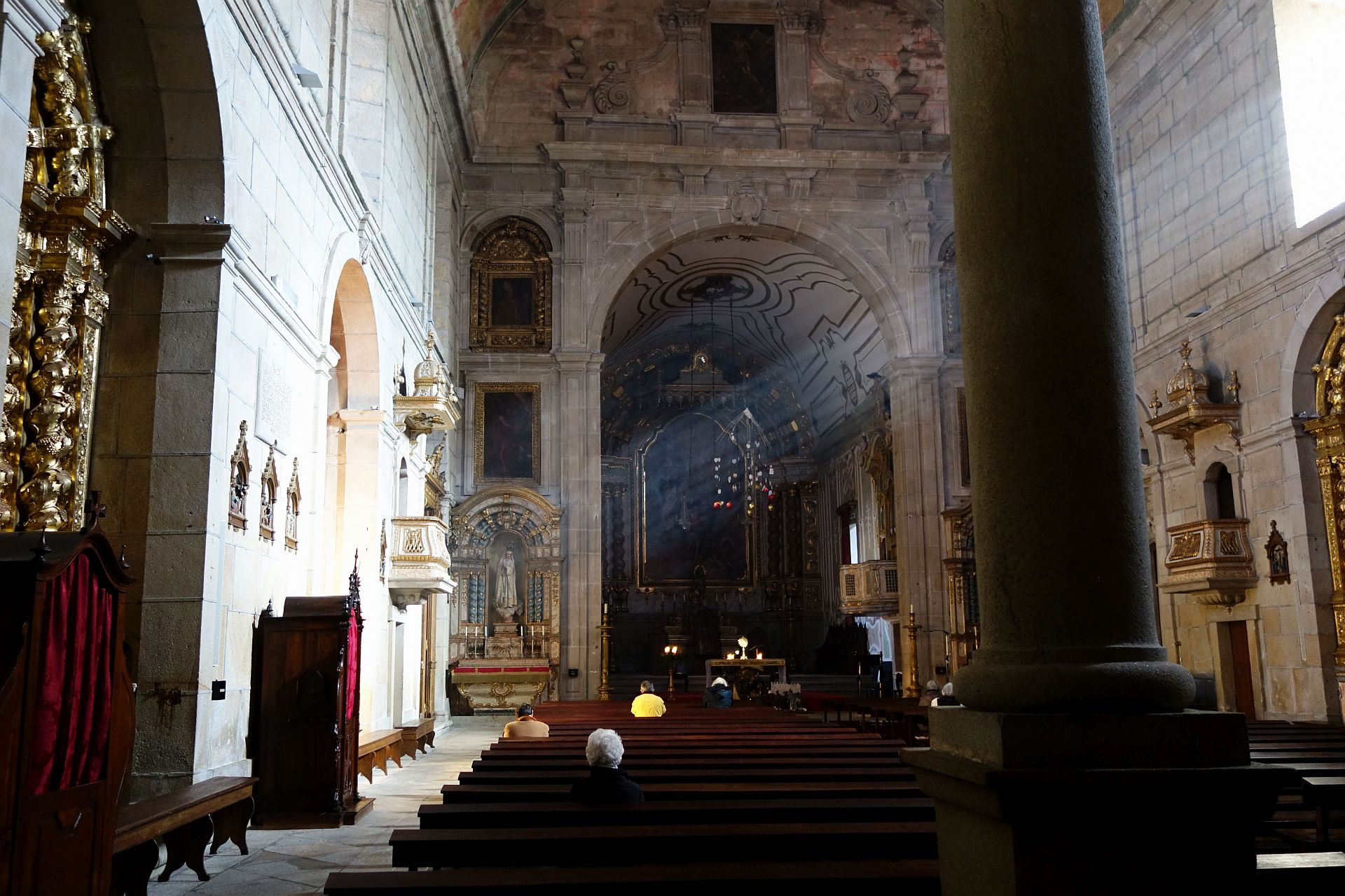 Church of São Miguel, also known as the See Cathedral in Castelo Branco. Originally built in the Romanesque style, its existence was documented already in the XIII century, but it was the object of much redesign and rebuilding throughout the ages, particularly in the XVI and XVIII centuries.